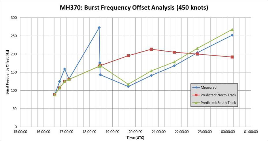 MH370 measured data against predicted tracks